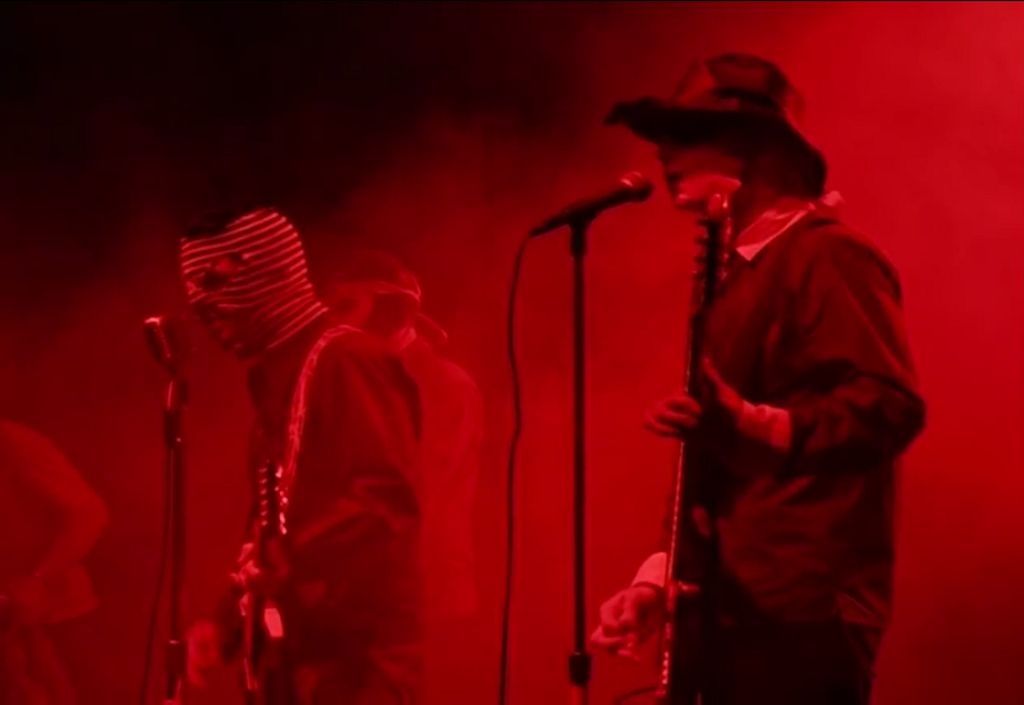 The Network Live in January 2004